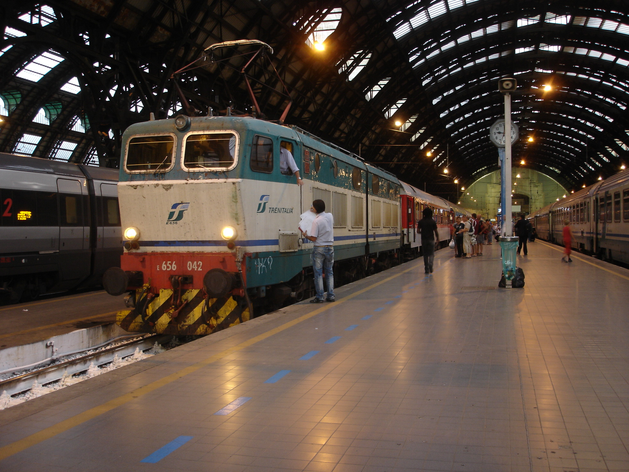 CNL 300 is ready to leave Milano Centrale station to Amsterdam. Leading locomotive is E656 042.